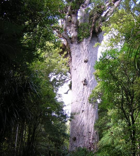 Tāne Mahuta